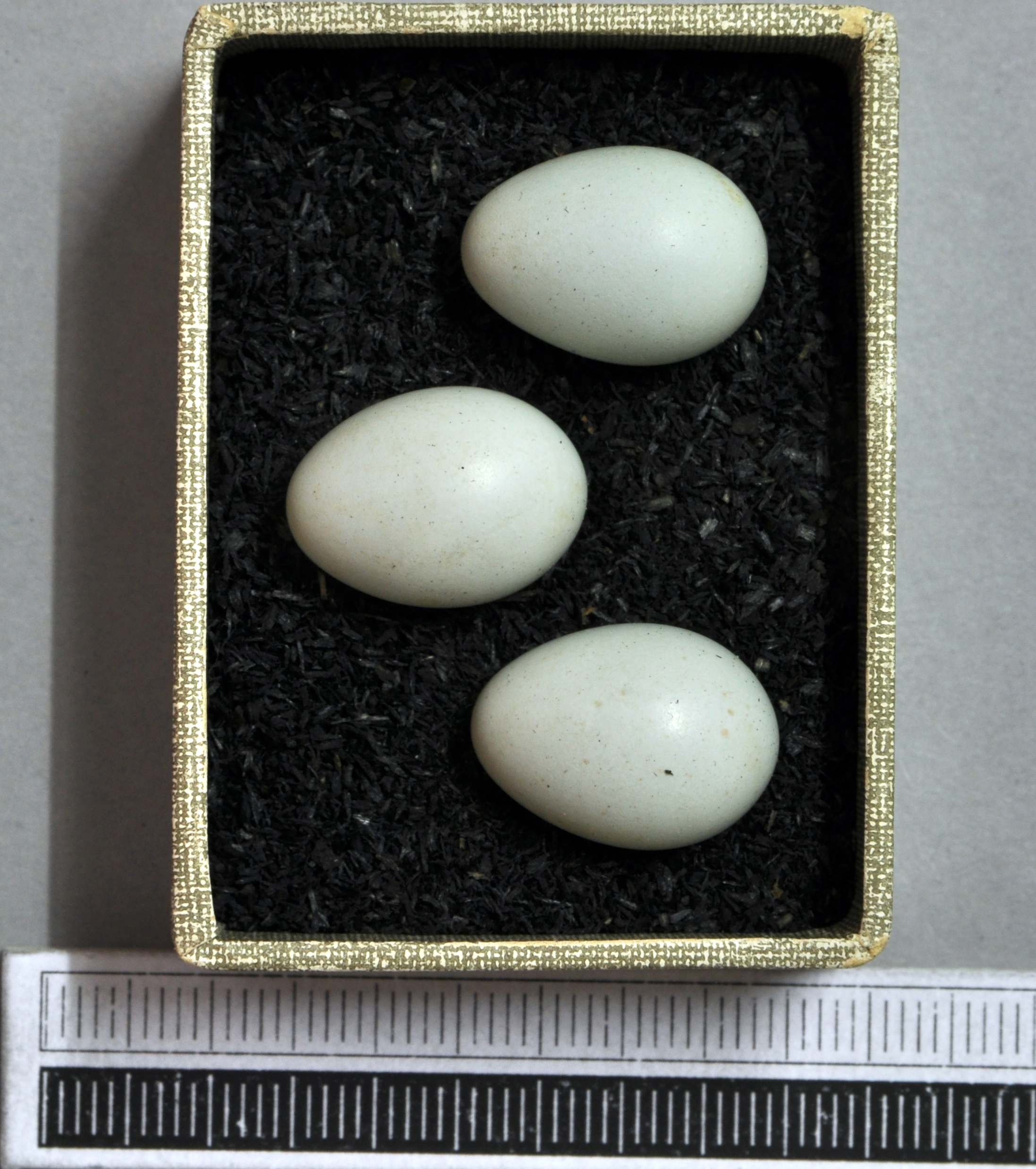 Collared flycatcher Ficedula albicollis , egg, Coll. Museum Wiesbaden